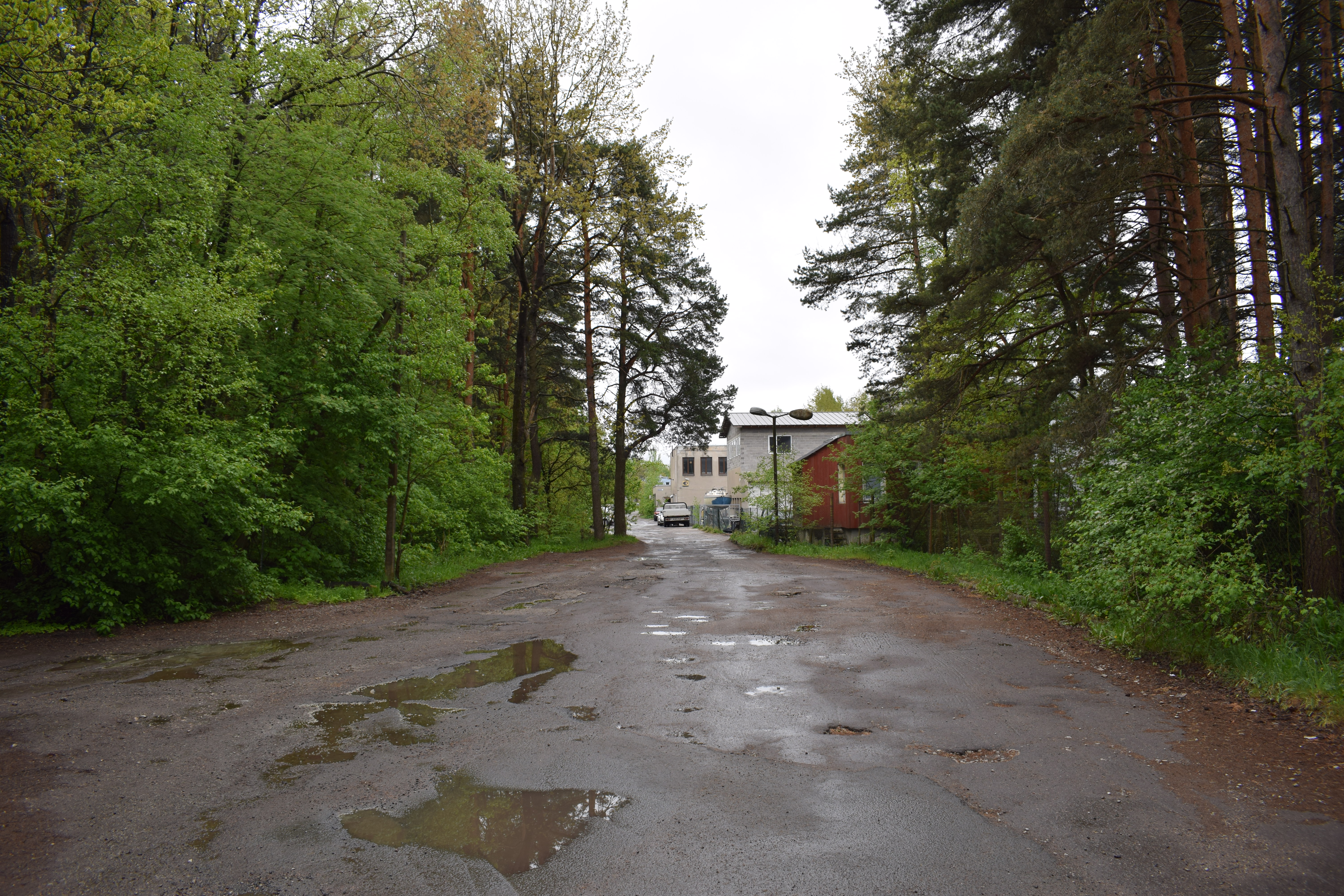 Hunditubaka tee